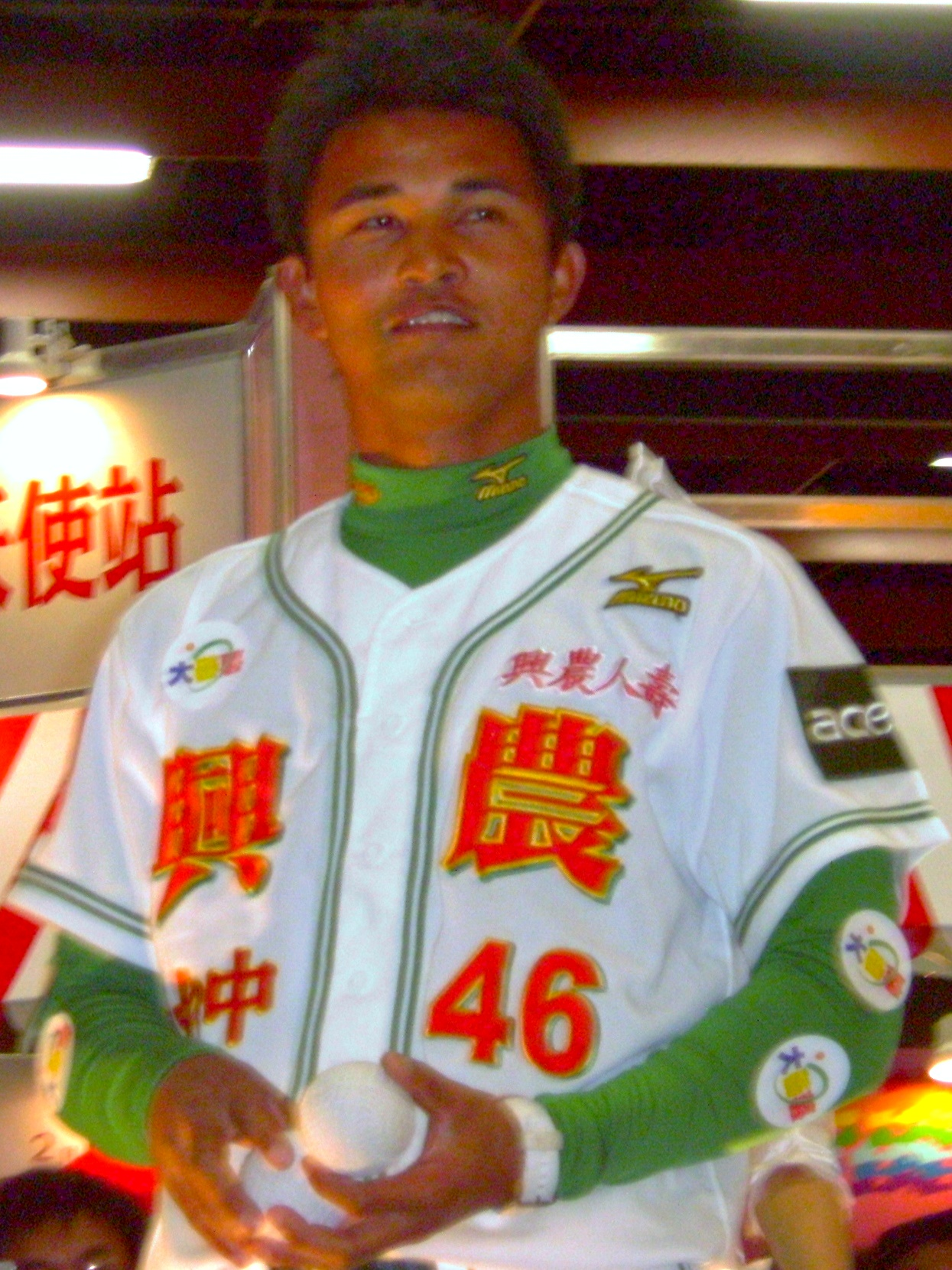 2007 Taipei Game Show: CPBL Sinon Bulls pitcher Chien-fu Yang participated special events at Game Station Co., Ltd. booth.